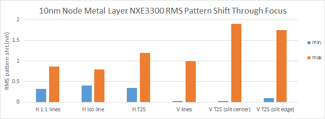 Through focus rms pattern shift for different horizontal (H) and vertical (V) patterns, including tip-to-side (T2S) at different slit positions. The anchor half-pitch is 24 nm. Ref.: T. H. Coskun et al., Proc. SPIE 9048, 90480W (2014). Note: The EUV tool NXE3300 has NA of 0.33 and conventional illumination sigma of 0.9 (